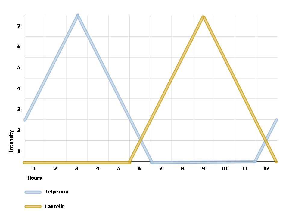 Graphical representation of the calculation of the day time of the trees in Valinor